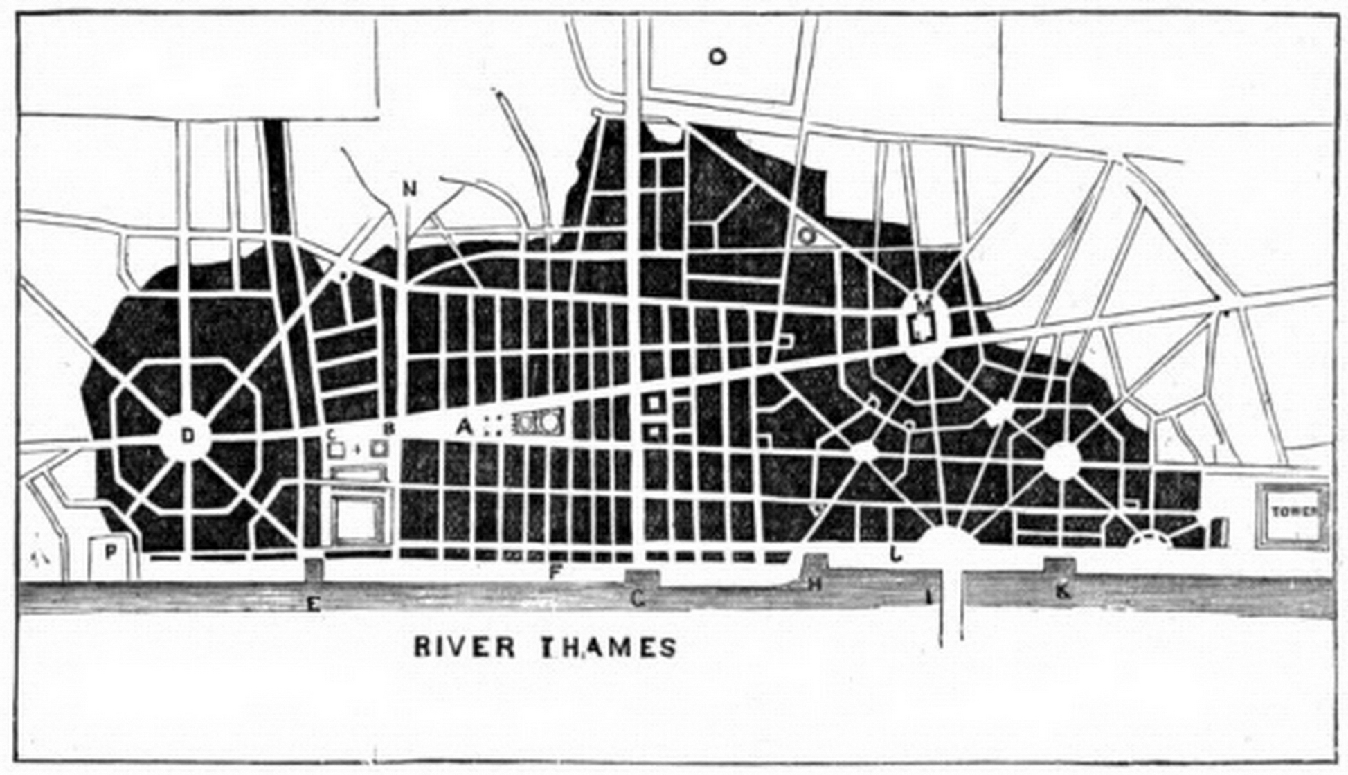 The title is the same as the image caption above and in "Cassell's Illustrated History of England, Volume 3". The number shown is the page number. Follow the image link to the full book vol.3.